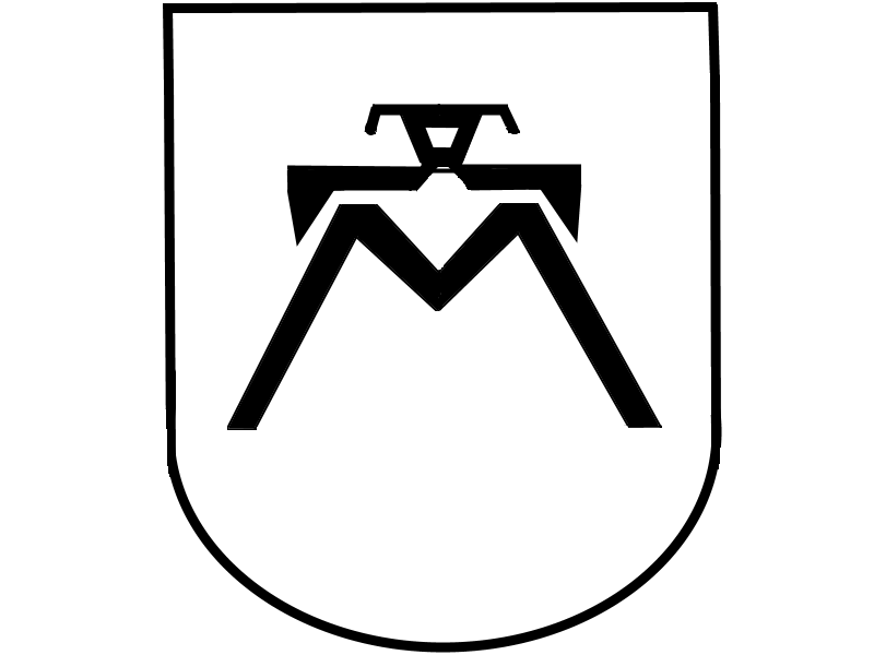 75. Infanterie Division, German Army, World War II